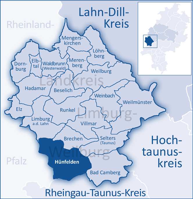 The map shows a district in the area of Limburg-Weilburg